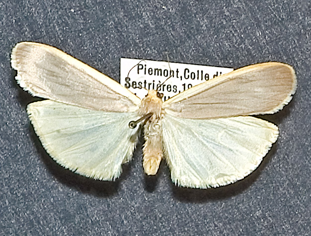 Specimen from Colle di Sestriere, Piemont, Italy